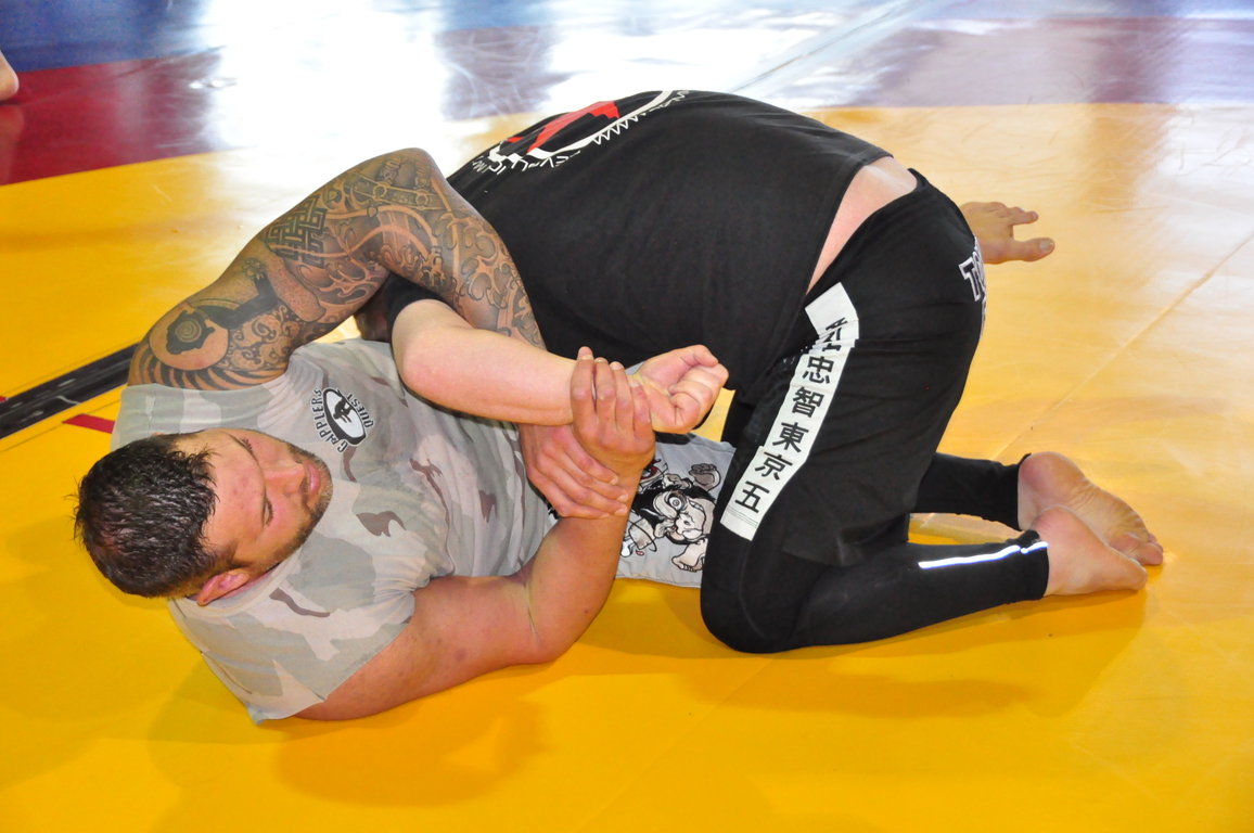 Neil Melanson Seminar March 2012 (demonstrating a Kimura armlock).